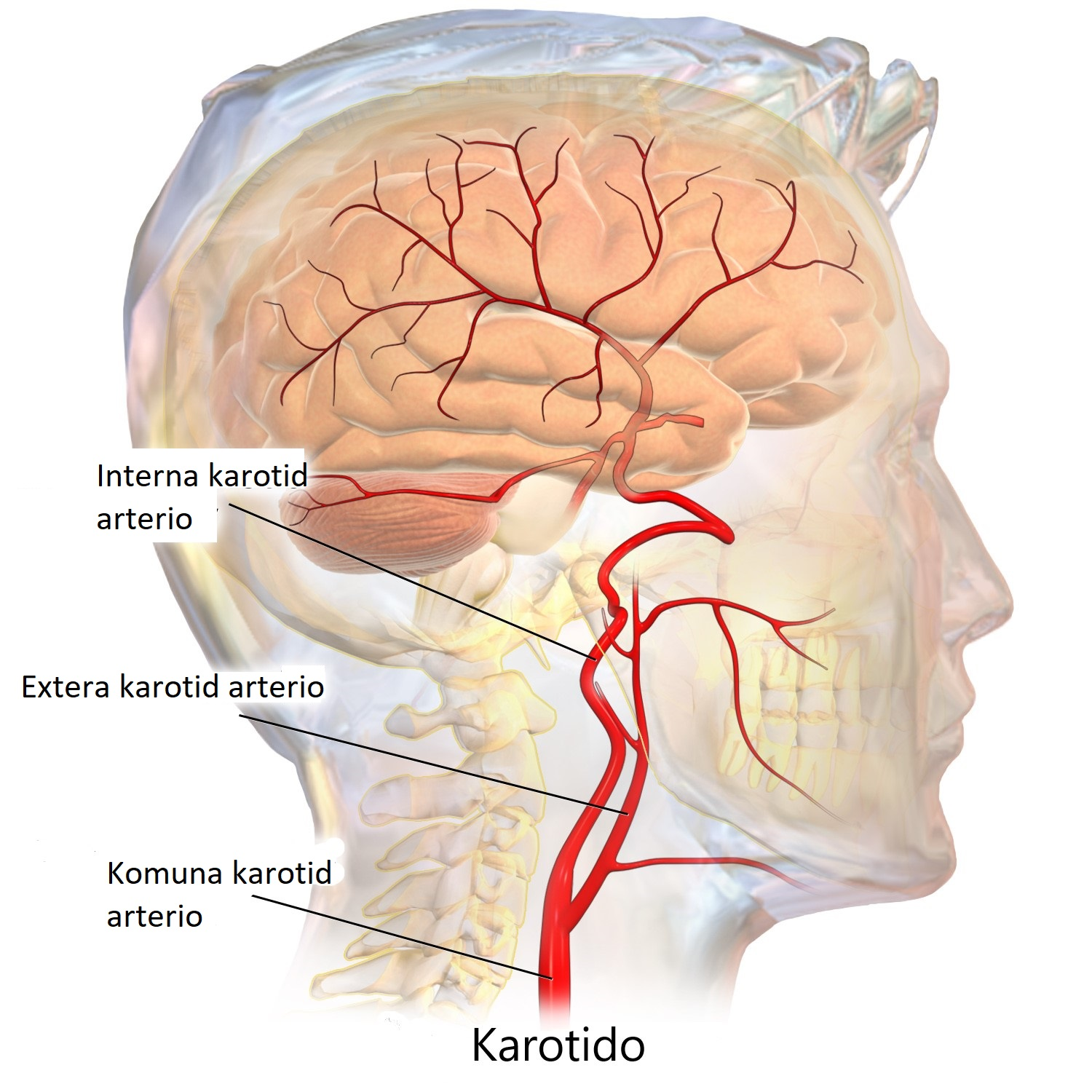 English translation of a image from Commons. Ido: Tradukuro ad Ido di imajo de Commons.